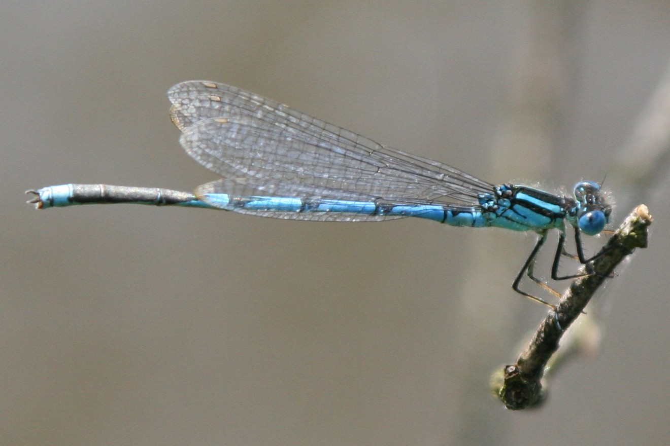 Male Erythromma lindenii damselfly photographed in Weinsberg